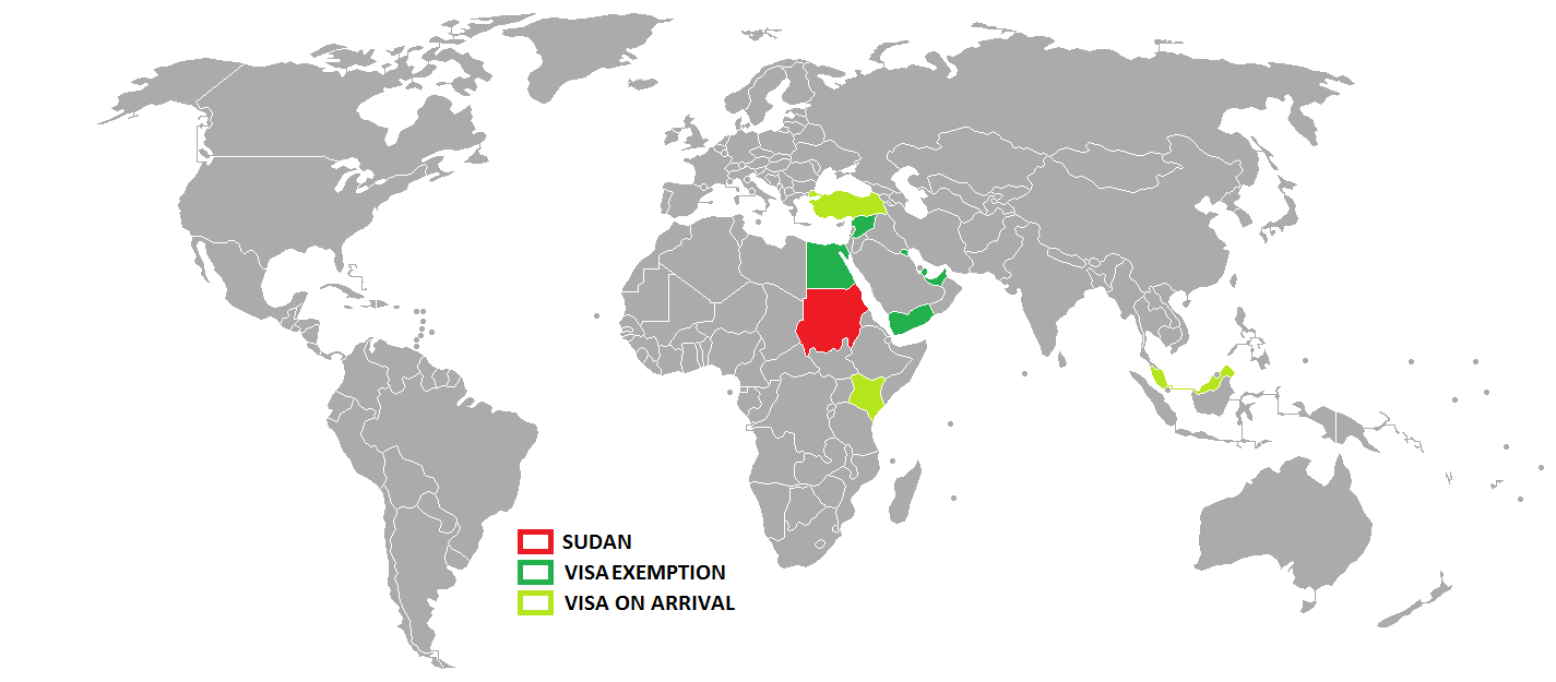 Visa policy of Sudan Sudan Visa-free Visa on arrival